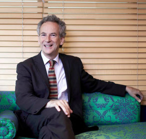 Professor Jonathan Waxman, founder and president of The Prostate Cancer Charity, Flow Foundation Professor of Oncology at Imperial College, London, and author of The Elephant In The Room